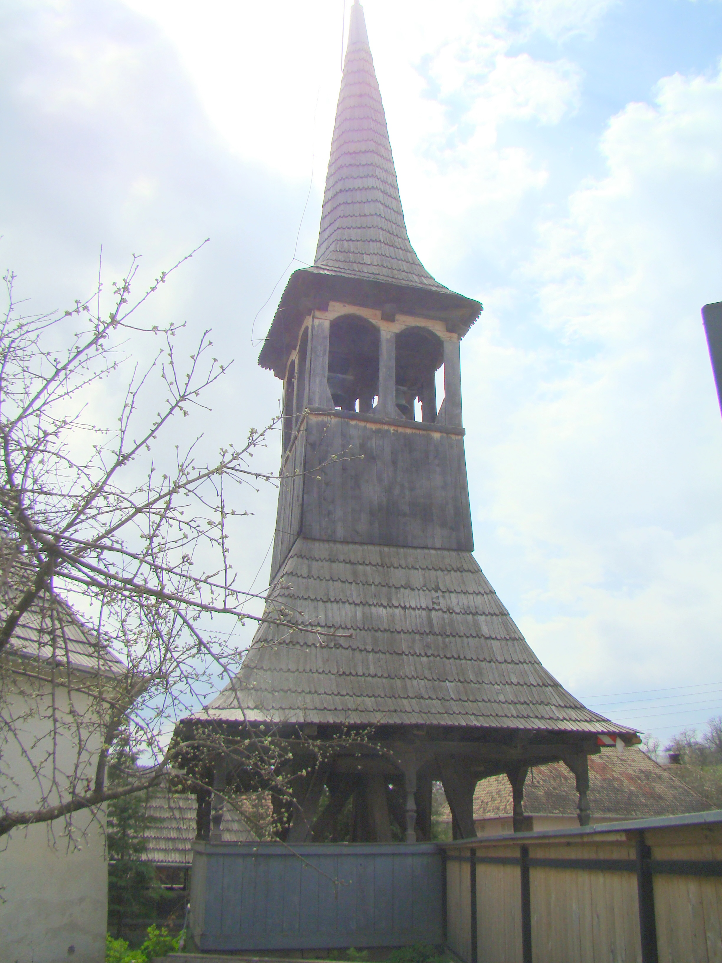 Reformed church in Satu Mic, Harghita county, Romania